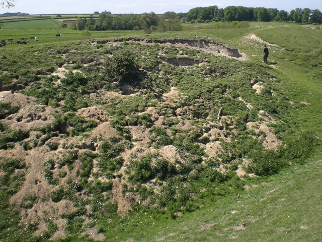 Erosion caused by rabbit warren, Warham Camp The rabbits are doing substantial damage to this area of the Iron Age fort where there are obvious signs of subsidence and erosion. Elsewhere the walls and ditch are impressively intact.